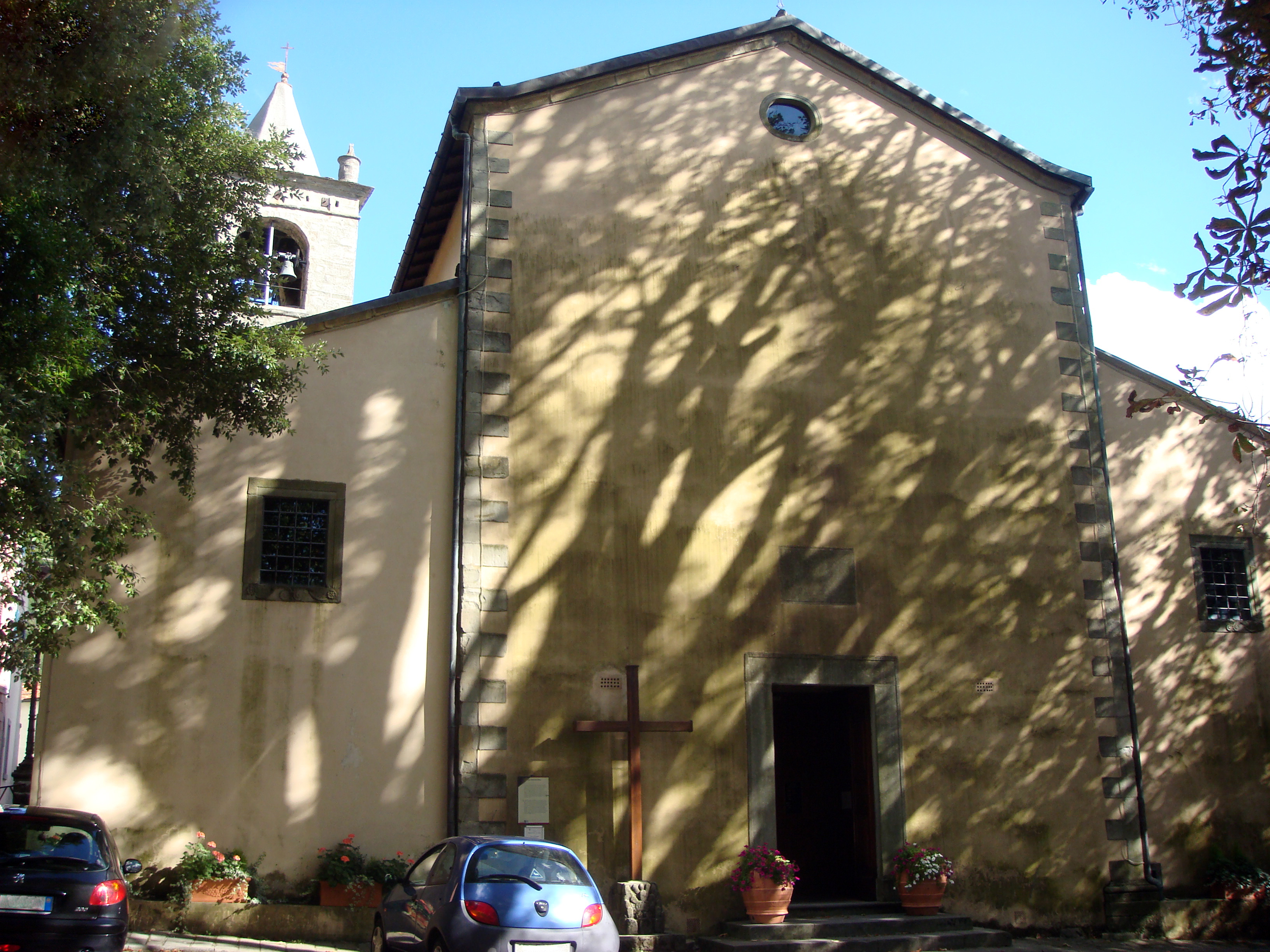 San Bartolomeo Church in Cutigliano